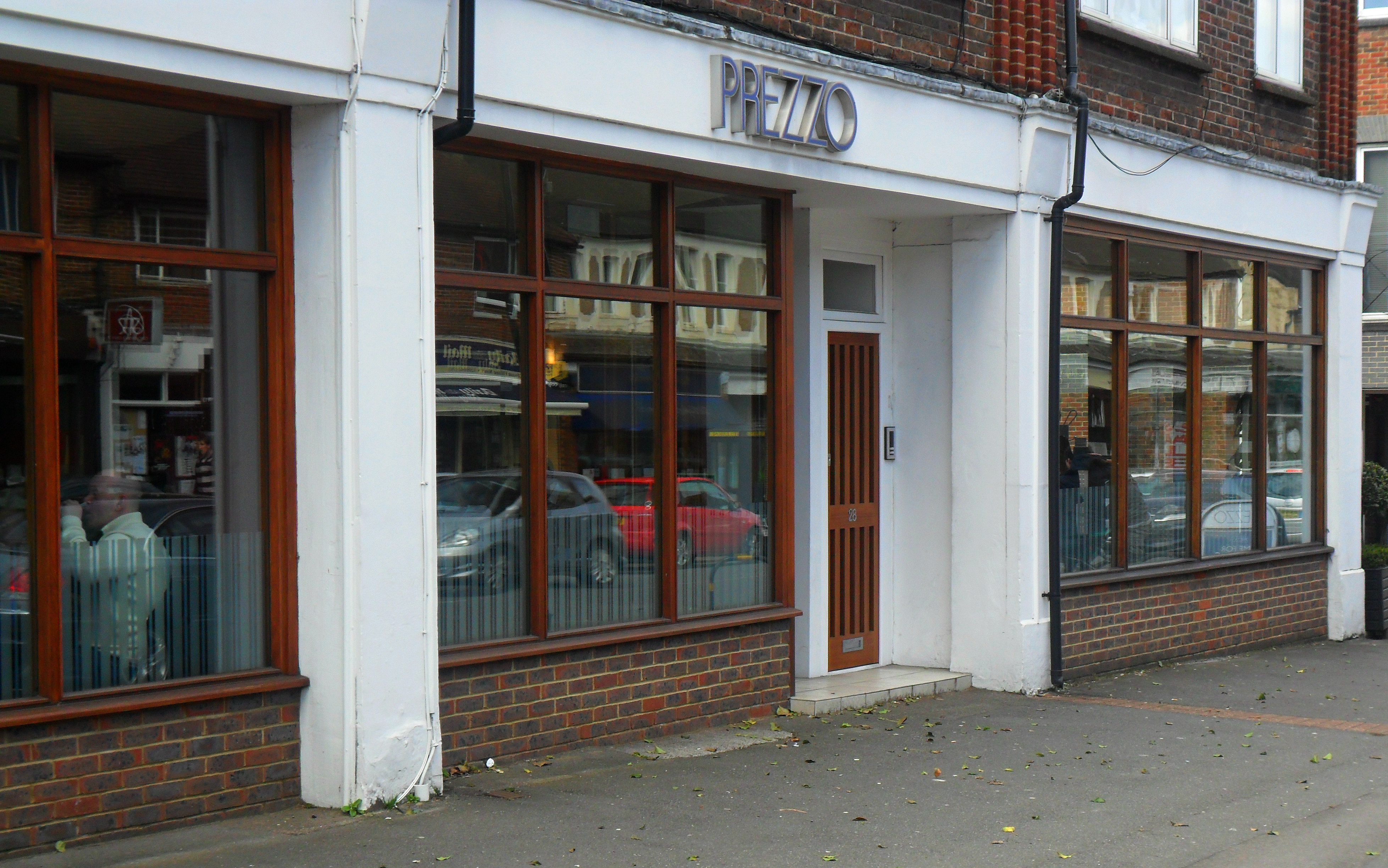 The Cheam Village branch of Prezzo. Cheam is in the London Borough of Sutton.